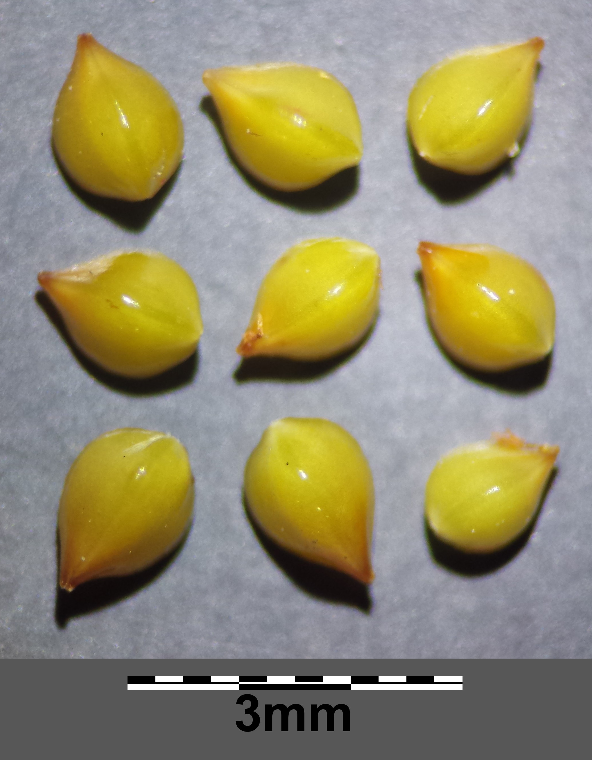 Nuts Taxonym: Rumex sanguineus ss Fischer et al. EfÖLS 2008 ISBN 978-3-85474-187-9 Location: Rohrwald, district Korneuburg, Lower Austria - ca. 250 m a.s.l. Habitat: wet shrubbery